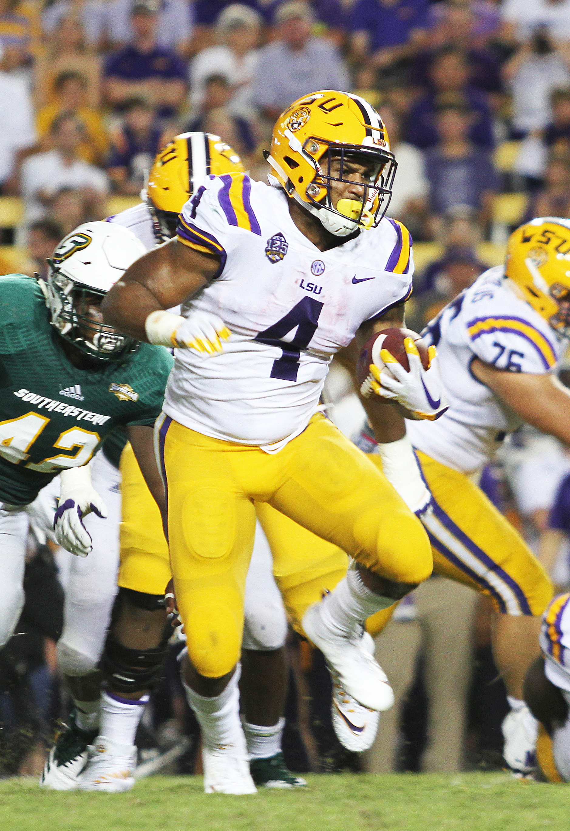 Nick Brossette, #4, LSU Tigers running back, SELU vs LSU at Tiger Stadium, September 8th 2018, Tammy Anthony Baker, Photographer